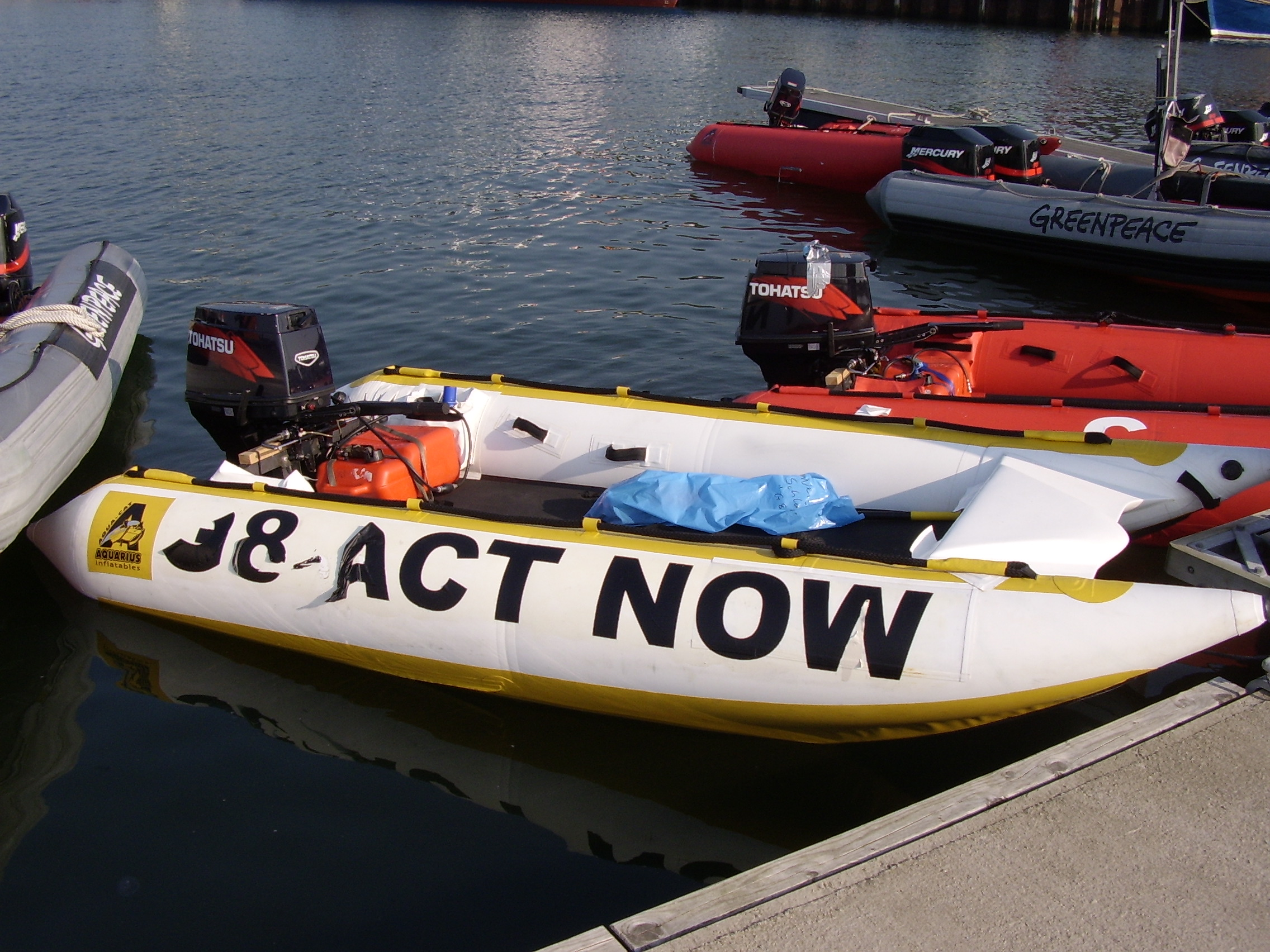 Greenpeace boats secured by police in heiligendamm during g8 2007